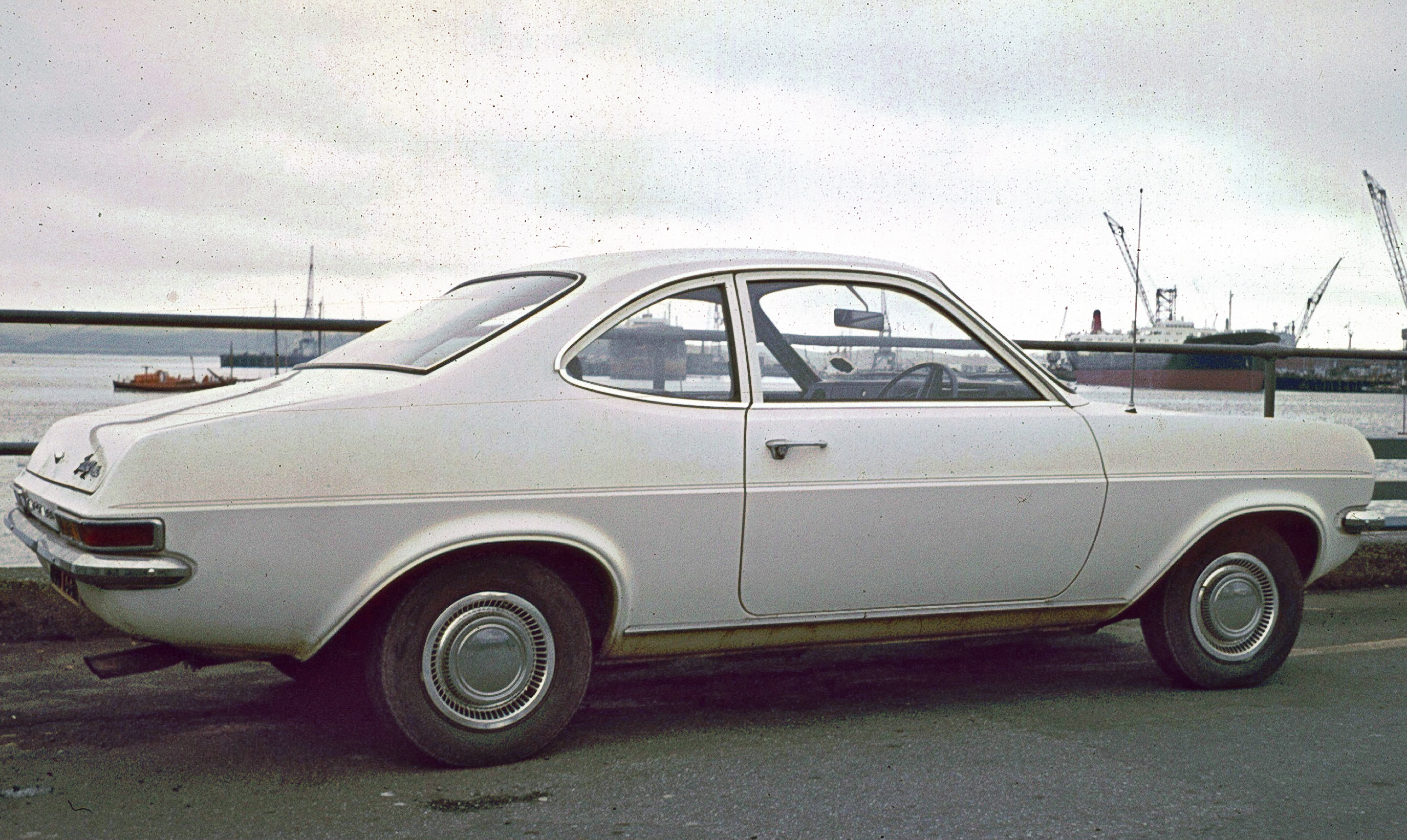 Vauxhall Firenza. (This is a modified version of the original image; see "retouched picture" notes below regarding what was done to this version).